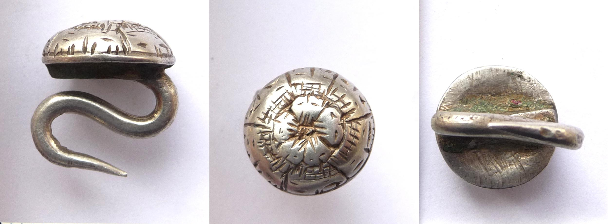 A post-Medieval, silver cap hook, Treasure reference number 2011 T843. It comprises a hollow, cast, domed circular cushion sitting on a circular backplate. The cushion is decorated with a, central, incised rose surrounded by radiating lines to the outer edge of the cushion with smaller, incised lines between, possibly representing the outer petals of the rose or foliage. The circular-sectioned, S-shaped hook is soldered to the reverse. Length 15.44mm, width (diameter of backplate) 12.90mm, thickness of hook 2.25mm, thickness of body 4.35mm, weight 2.74g. The precious metal content of this hook fulfils the requirements of the Treasure Act in that it is greater than 10 %.